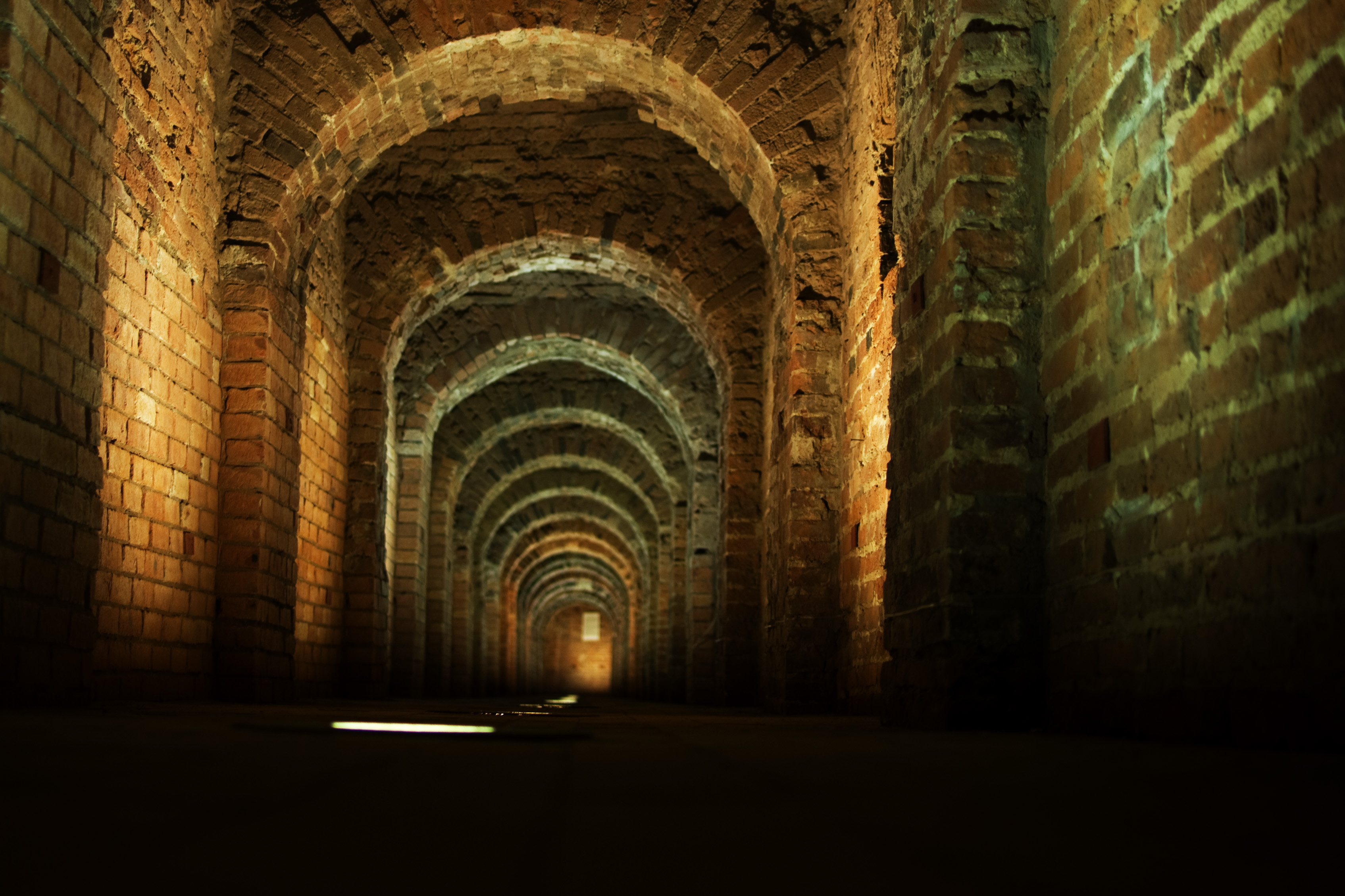 Postern under the Peter and Paul Fortress, St. Petersburg